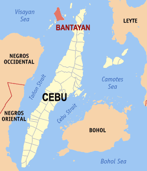 Map of Cebu showing the location of Bantayan Island (not municipality)